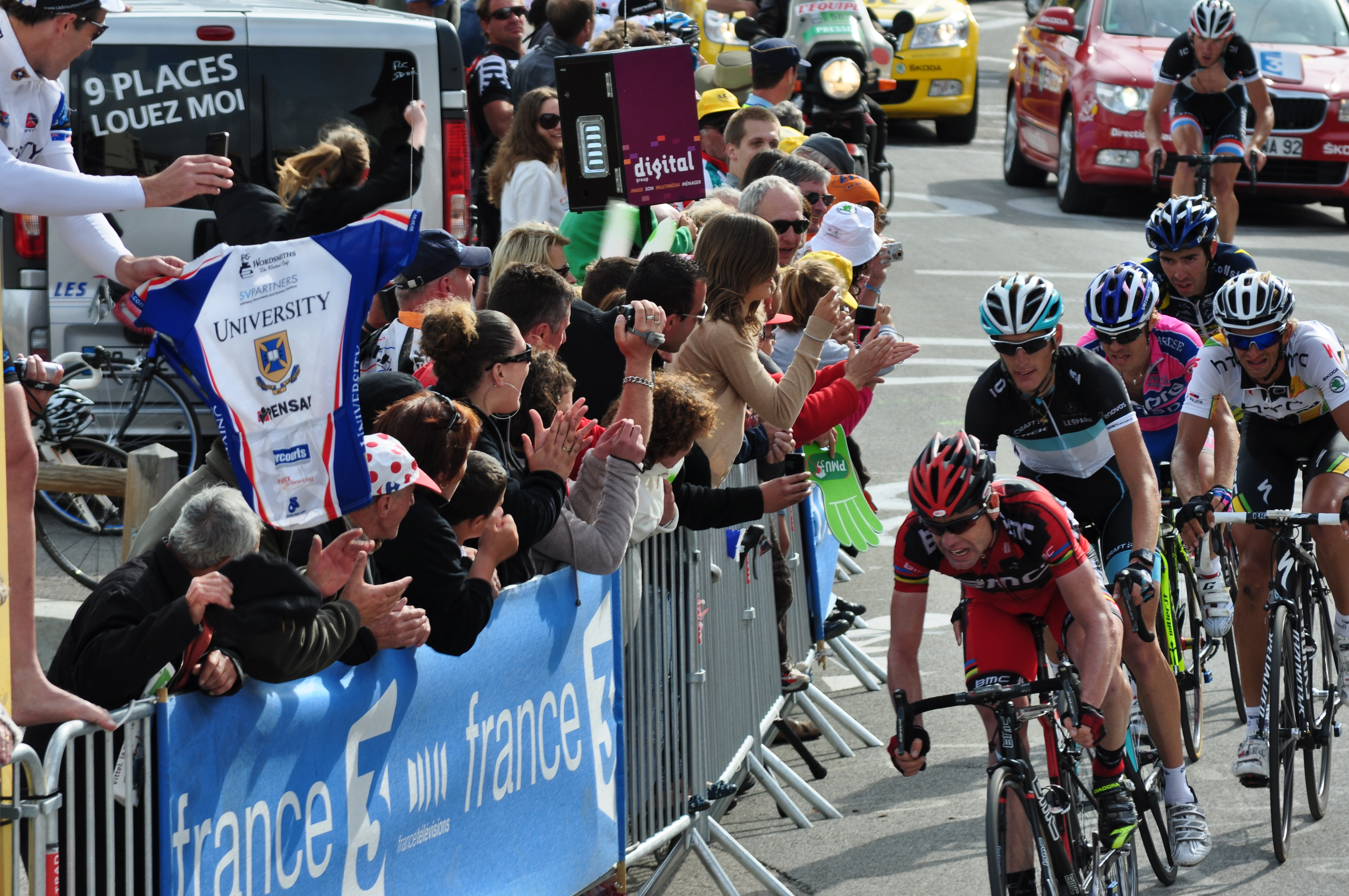 Cadel Evans leads a group to the finish line on stage 19 of the 2011 Tour de France. With him are Peter Velits, Andy Schleck, Damiano Cunego, and surprisingly Thomas De Gendt. Just off the back is Fränk Schleck.